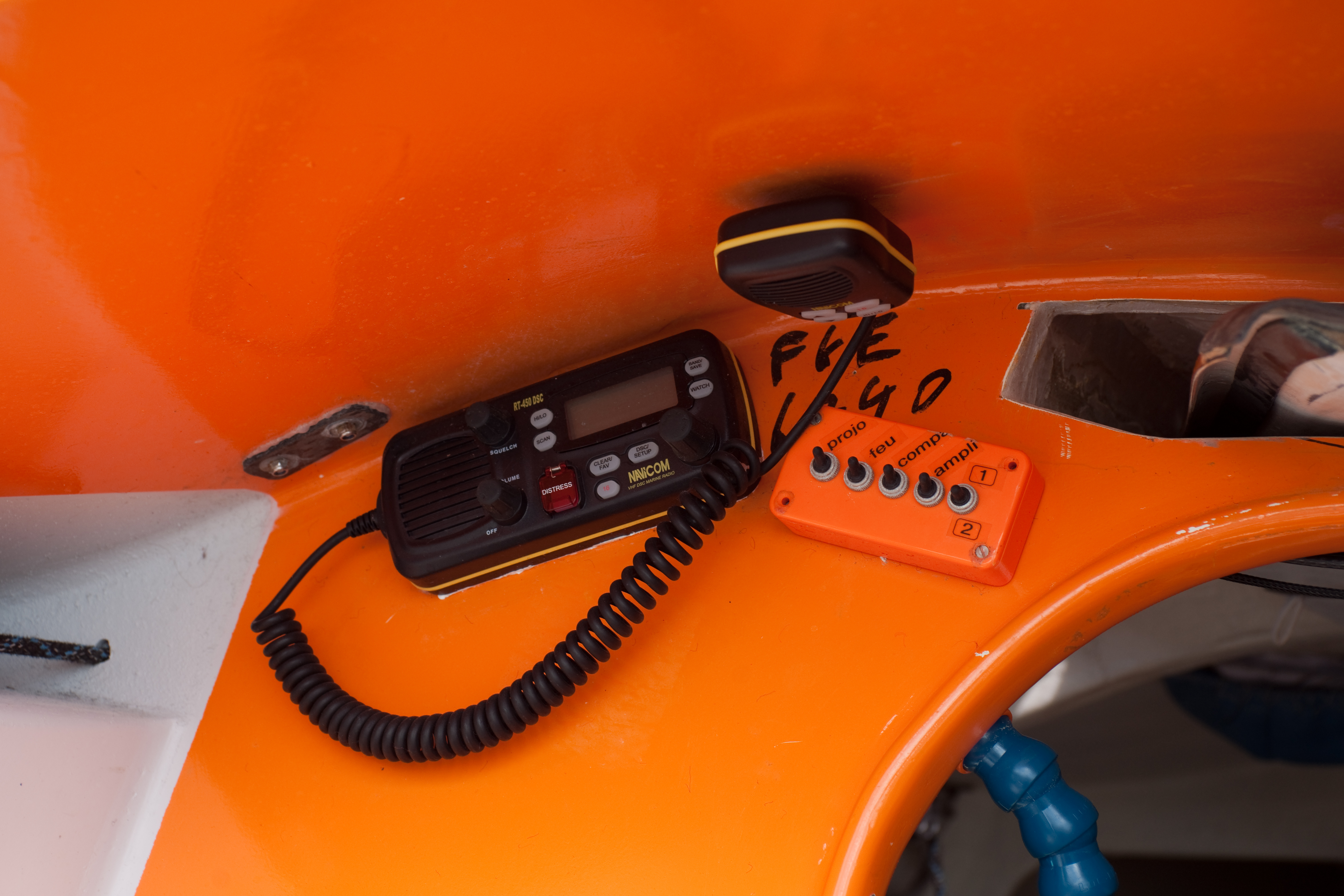 VHF radio compatible with the Global Maritime Distress Safety System.